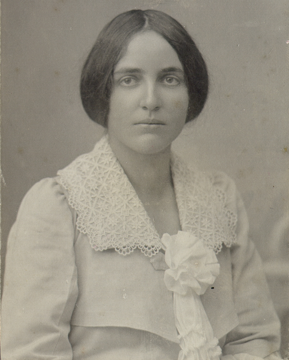 Zofka Kveder (1878-1926), slovene writer.